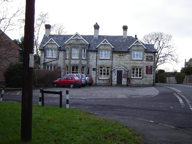 Three Horseshoes Pub, East Worldham. A Gales pub, excellent beer and food. Near the hangers way for tired walkers